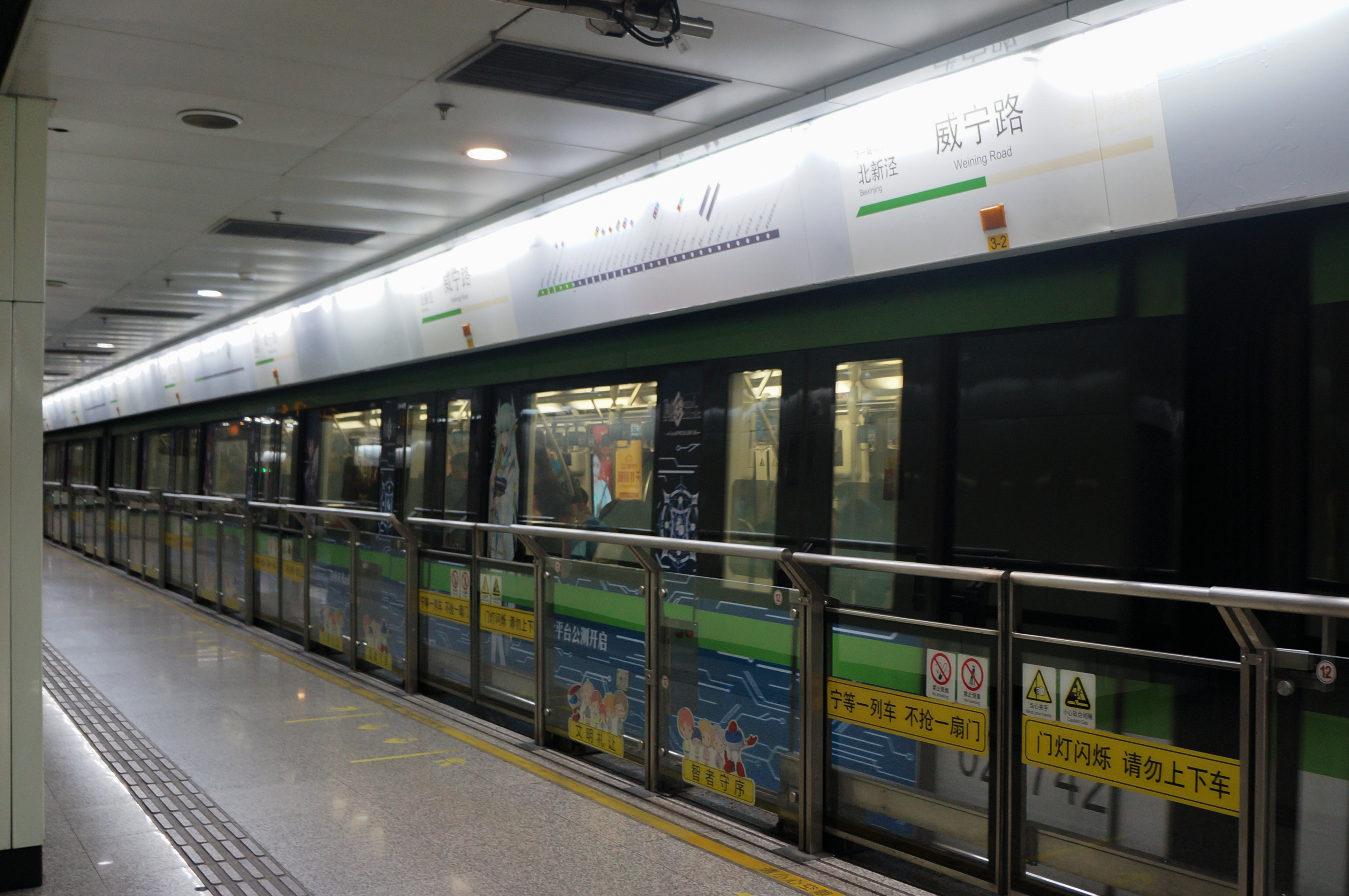 201611 AC08 with FGO adv at Weining Road Station